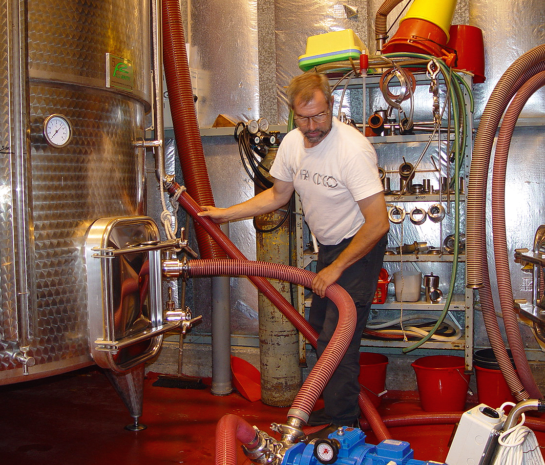 Barry Saslove, Israeli wine maker